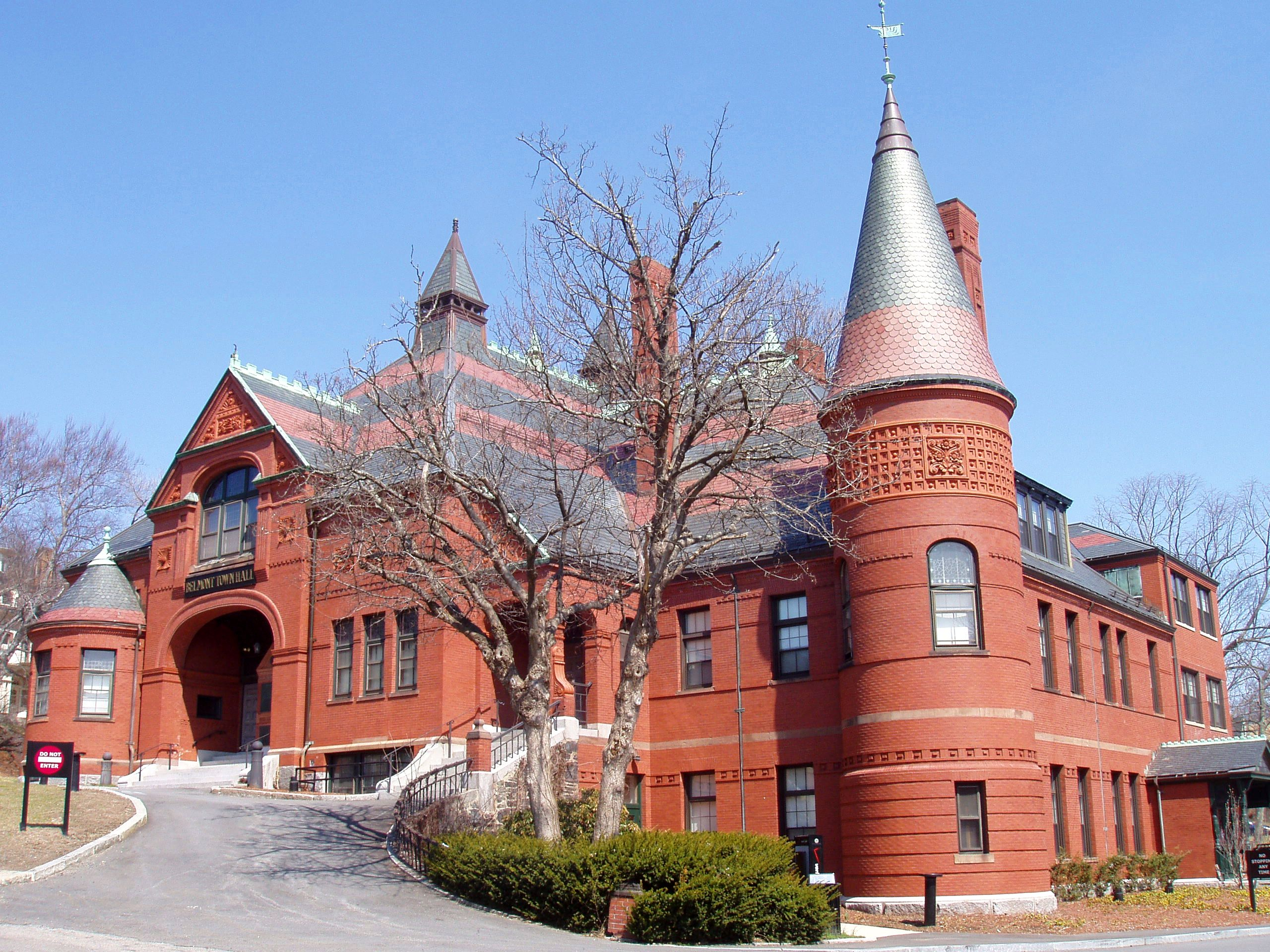 General photograph of the Town Hall, Belmont, Massachusetts, USA. Architects were Henry Walker Hartwell and William Cummings Richardson, according to "Hartwell and Richardson: An Introduction to Their Work", by Susan Maycock Vogel, in The Journal of the Society of Architectural Historians, Vol. 32, No. 2 (May, 1973), pp. 132-146.